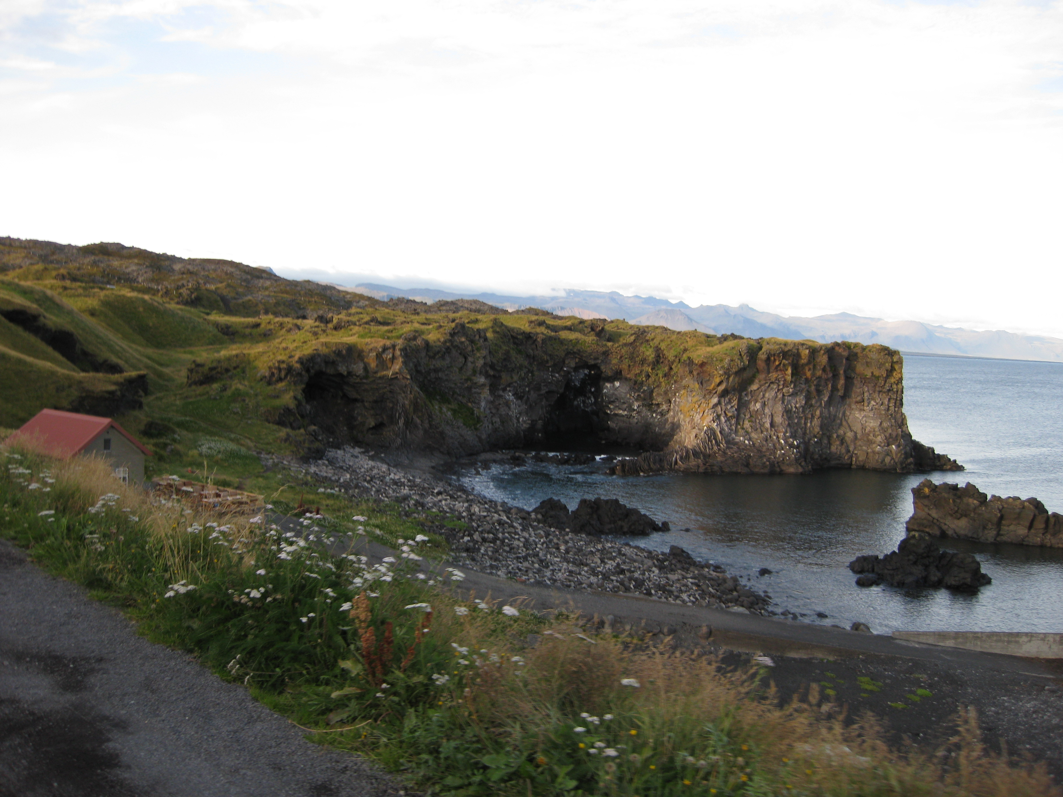 Hellnar in Snæfellsnes , Iceland. Photo by Salvor Gissurardottir in August 2008